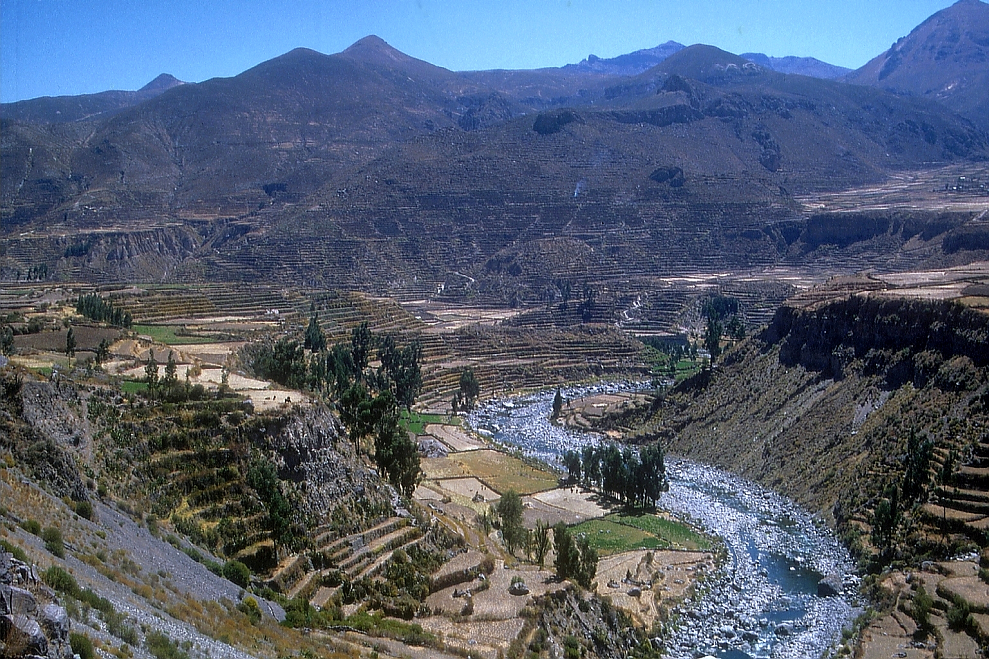 view to Colca-Canyon